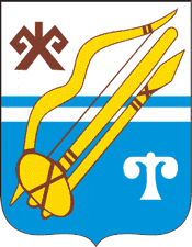 Gornoaltaysk (Altai Republic), coat of arms